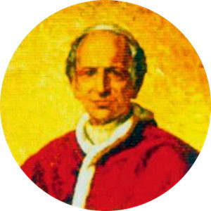 Portait of Pope Leo XIII in the Basilica of Saint Paul Outside the Walls, Rome